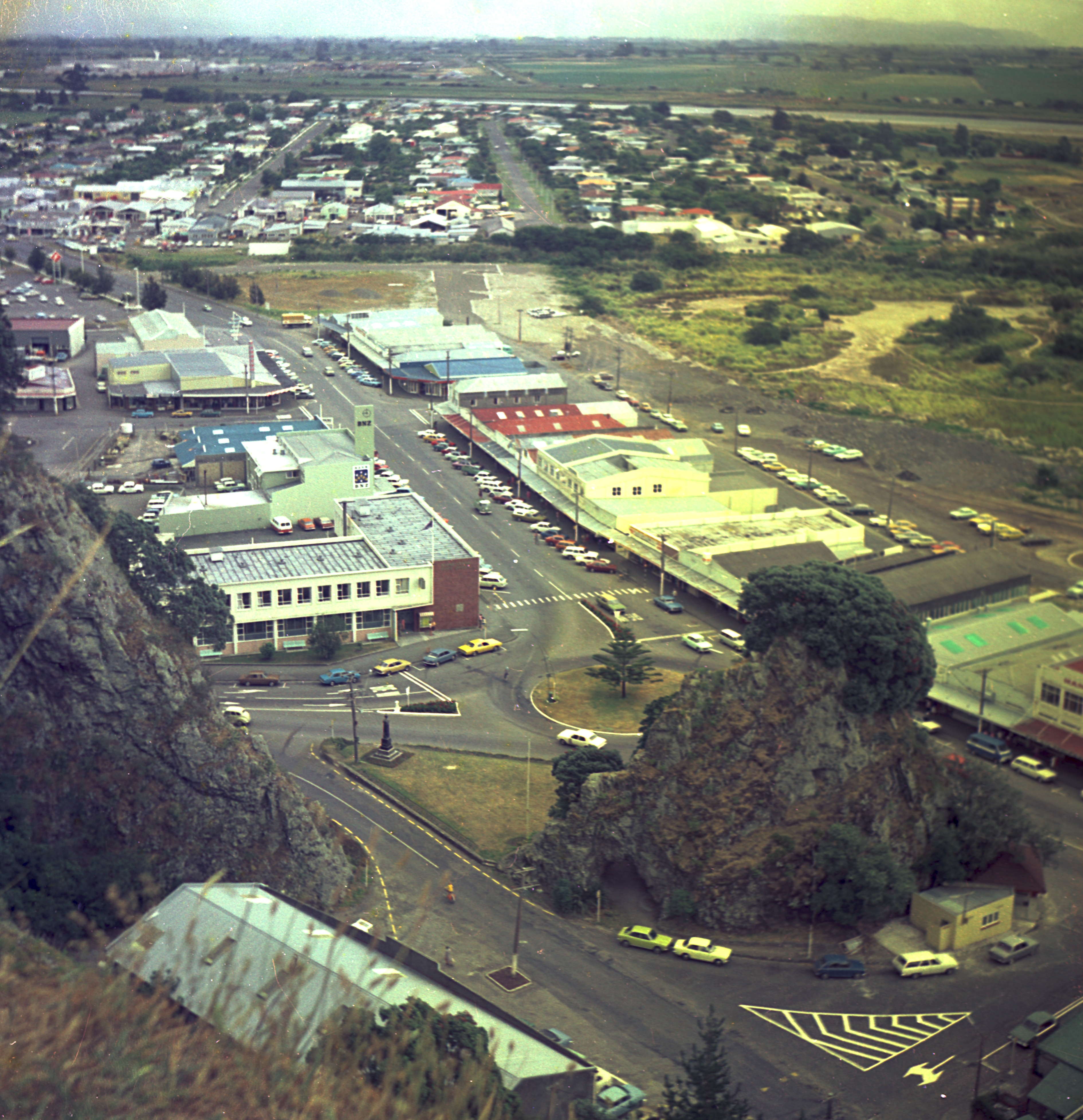 Part of Whakatane township and river from Hillcrest road. Whakatane, New Zealand.